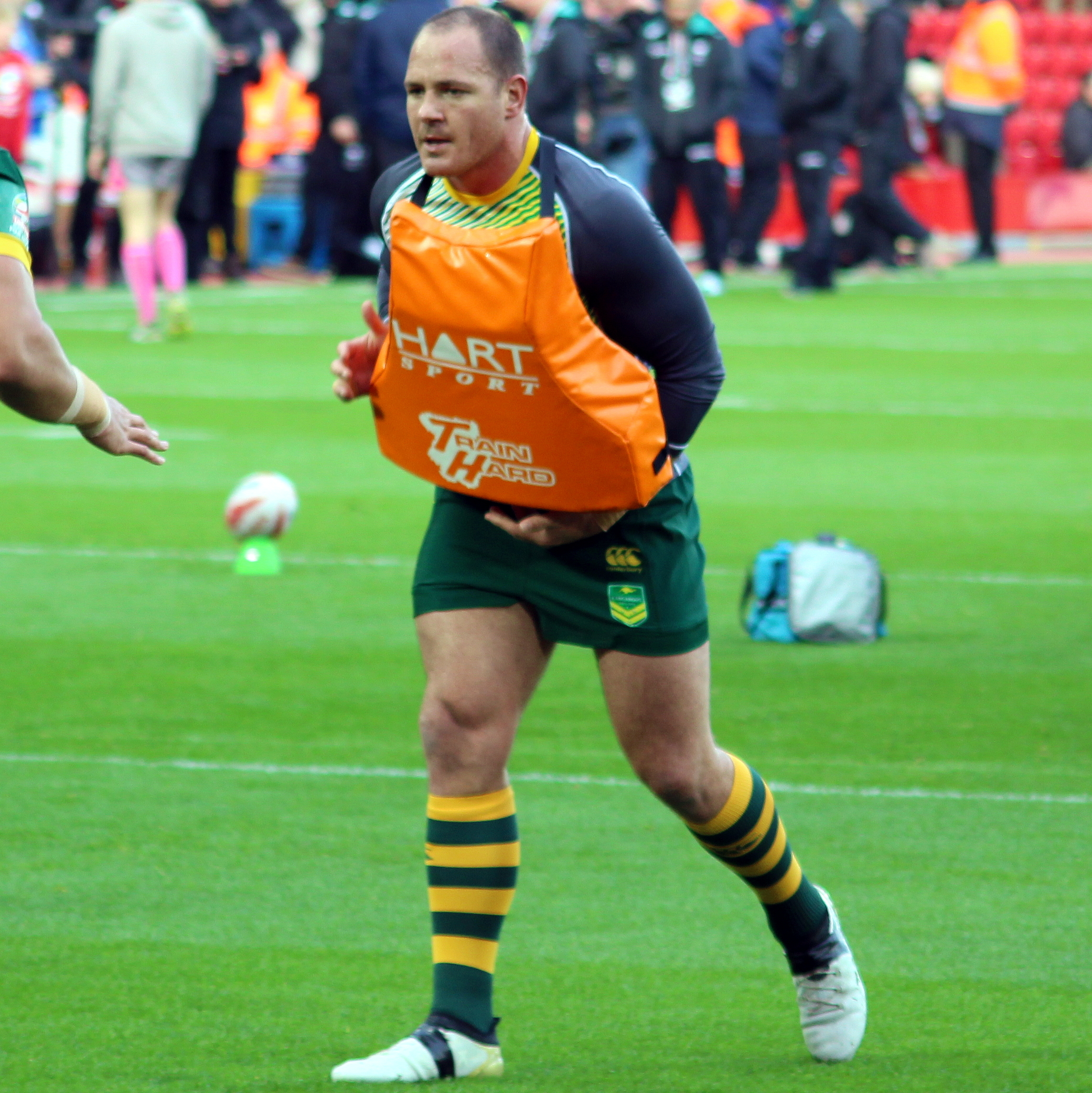 Matt Scott